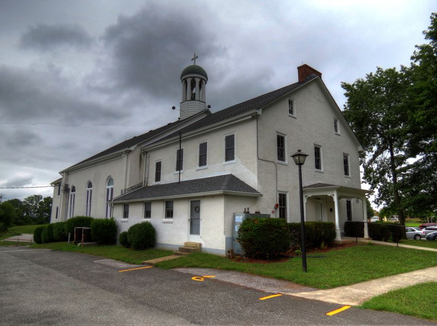 A Moravian Church in Graceham Maryland built in the 1740s.